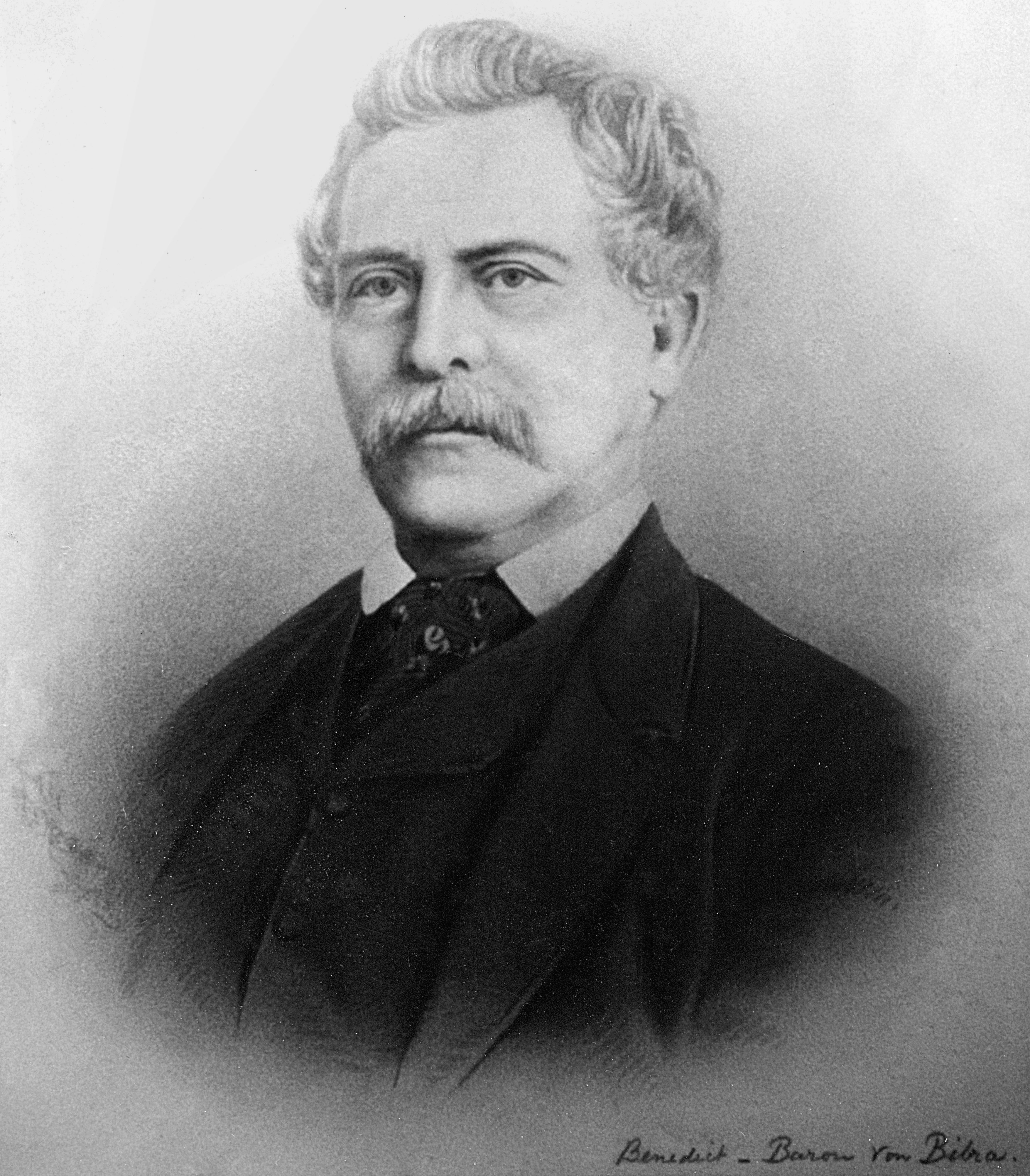 Photo taken at the Bibra Reunion in Tasmania, Australia 1996 Digital retouch of picture of Benedict von Bibra, only one Benedict von Bibra (1809-1884) however two grandsons had Benedict as a middle name.